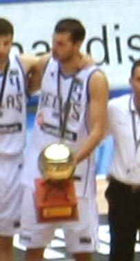 Image of Michalis Kakiouzis cropped from Image:Basketball WC 2006 Final 3.jpg